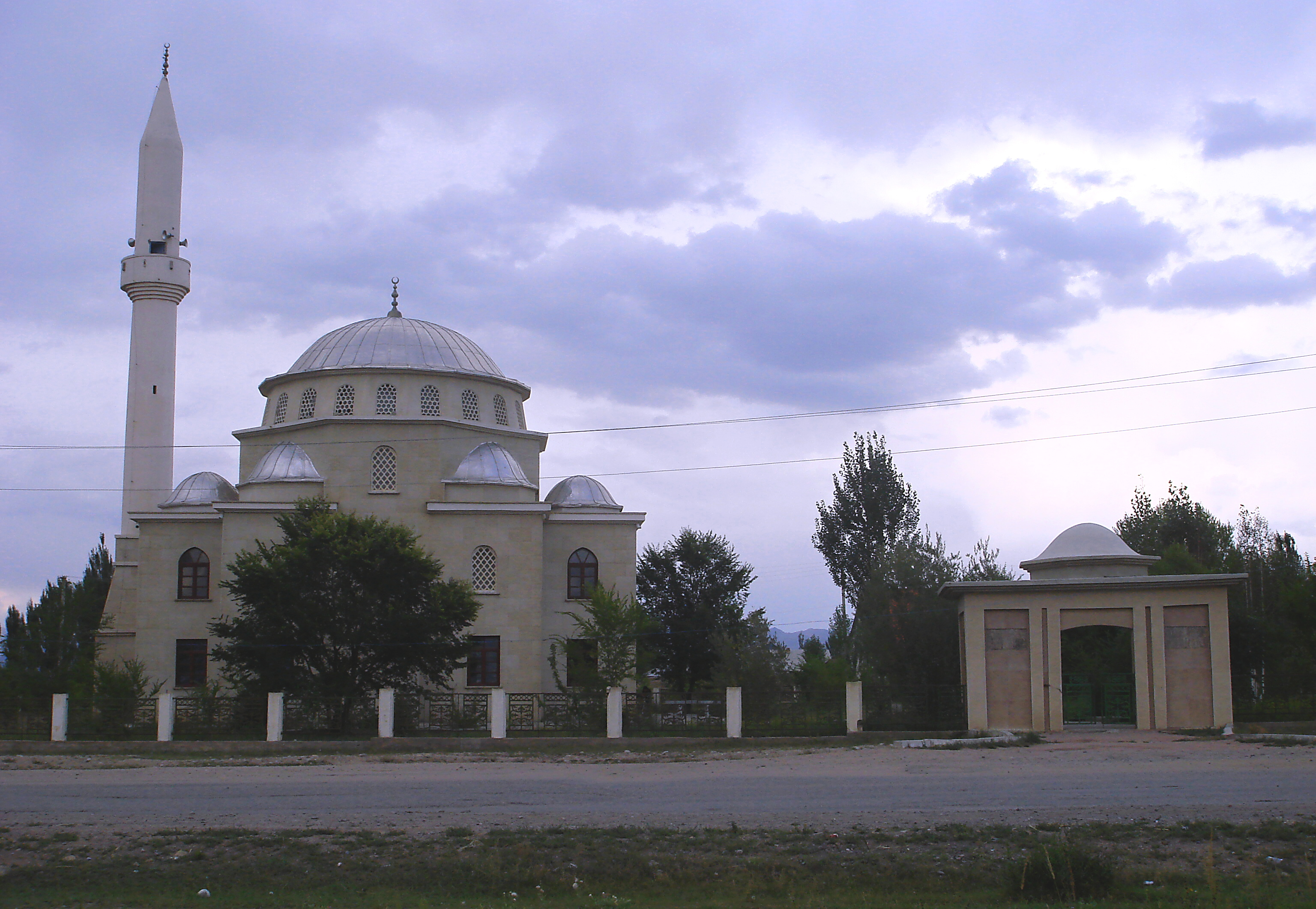 Turkish-financed new mosque in Kochkor (Naryn Province, Kyrgyzstan).